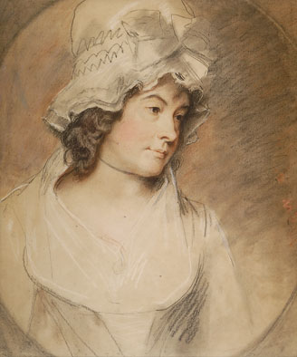 Depicted person: Charlotte Turner Smith – English Romantic poet and novelist